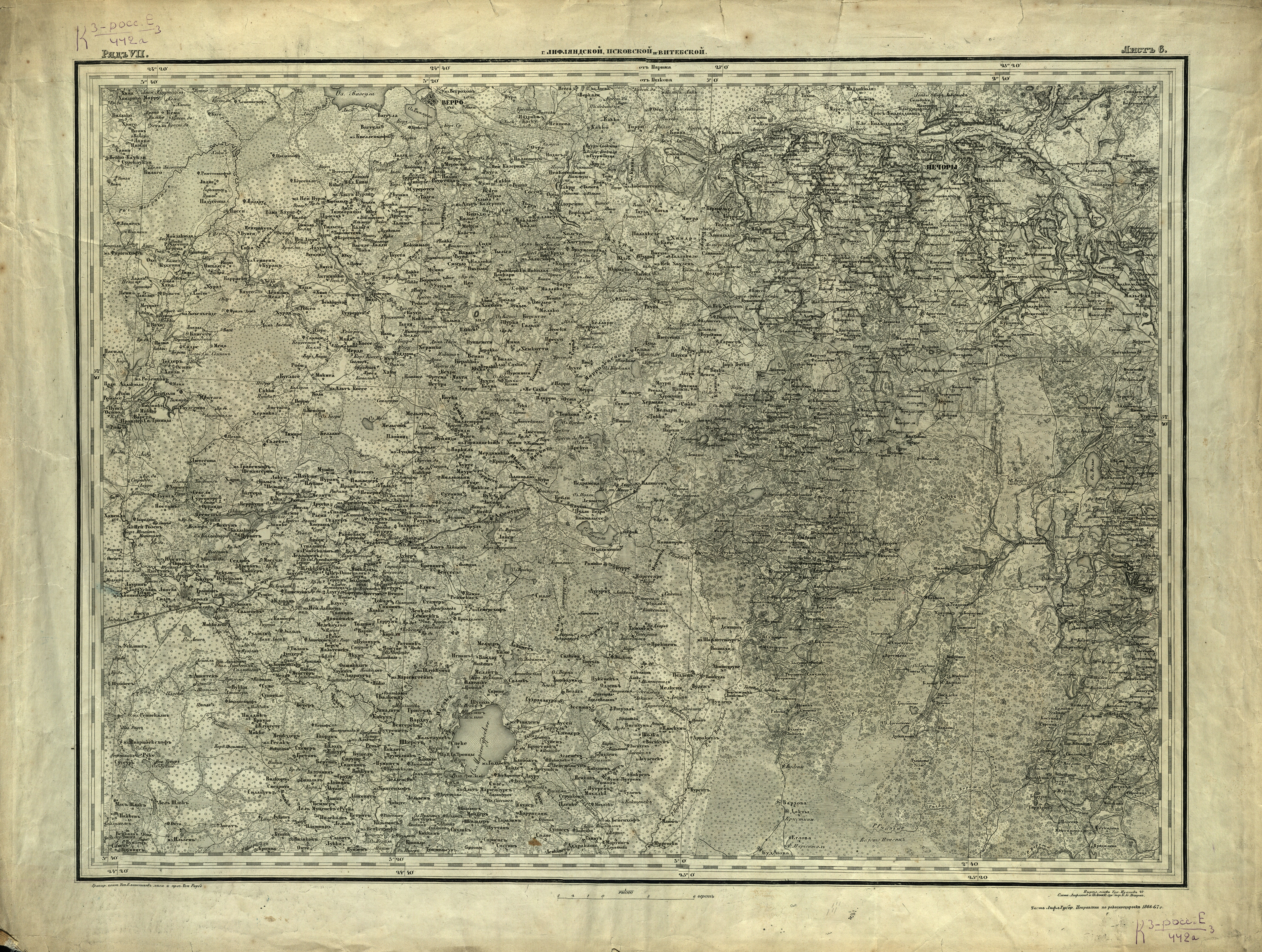 "Shubert's map". Fragment of topographic map of Russian Empire. 3 versta in inch (1260 m in 1 cm).